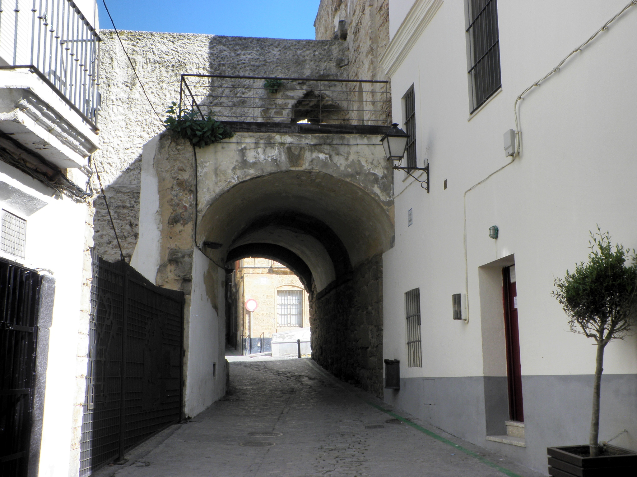 Los Blanco Arch